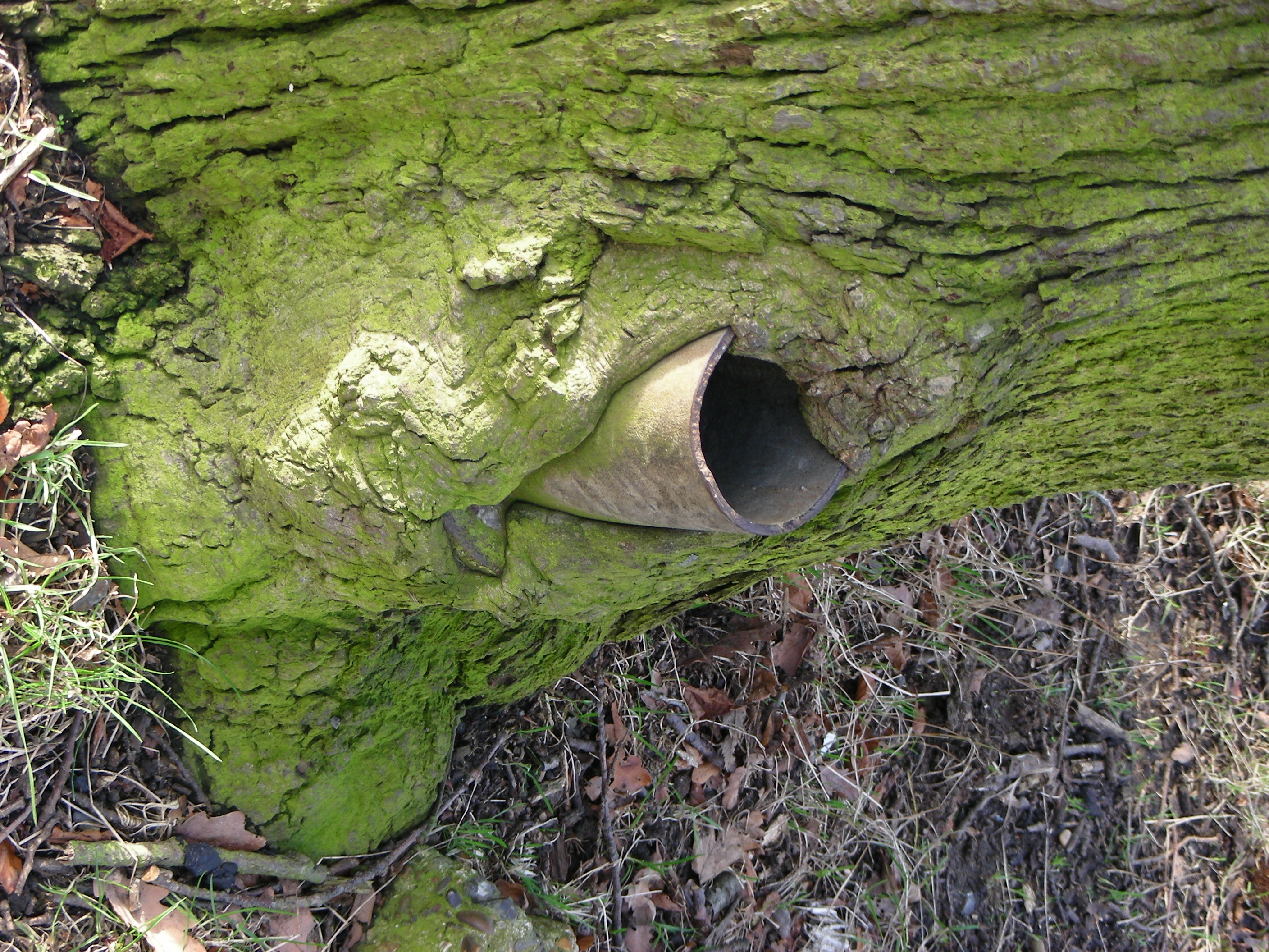 A tree in Oxleas Wood, swallowing/growing over what appears to be a sawn-off lamp post.